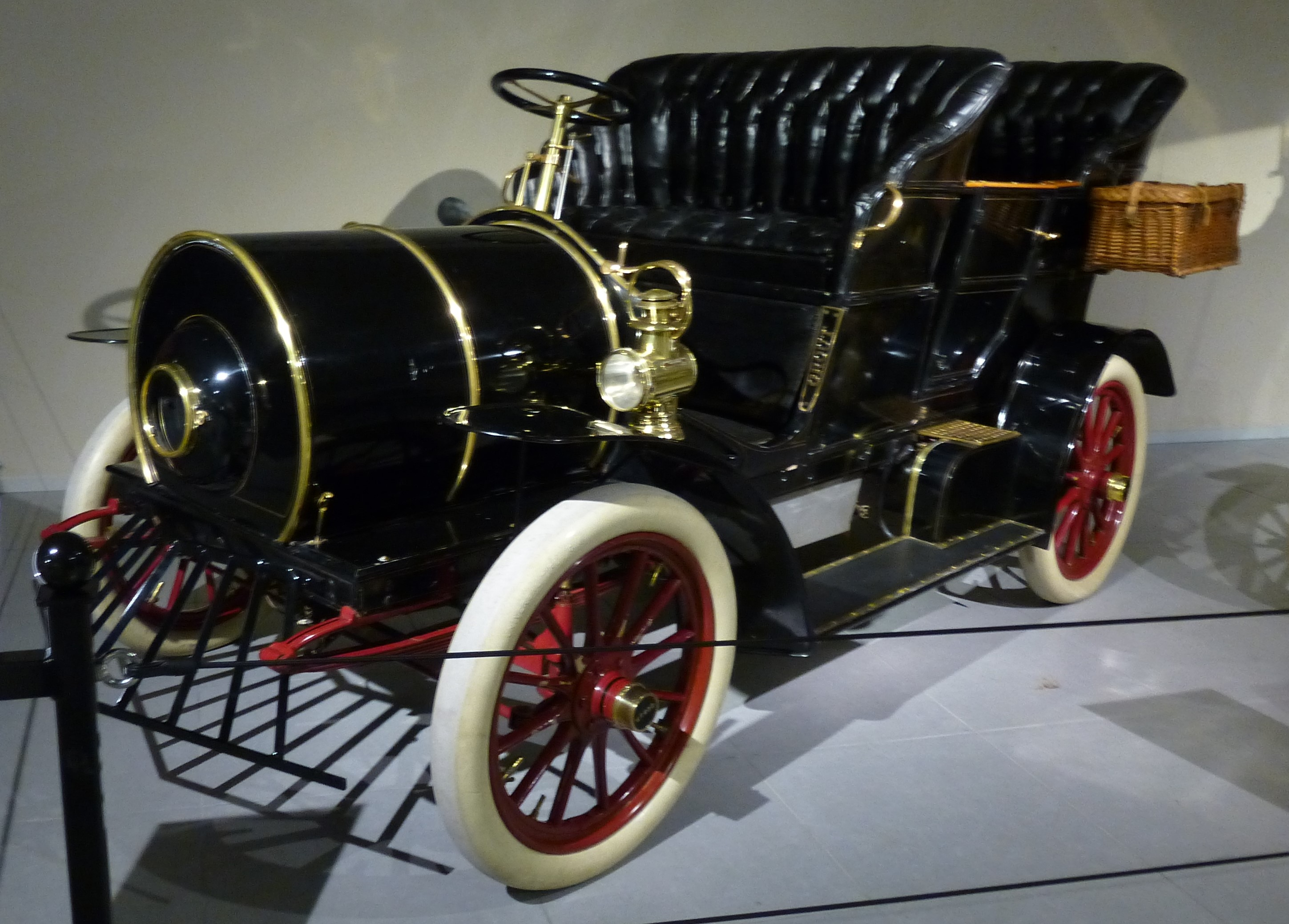 Grout 12 HP 1904